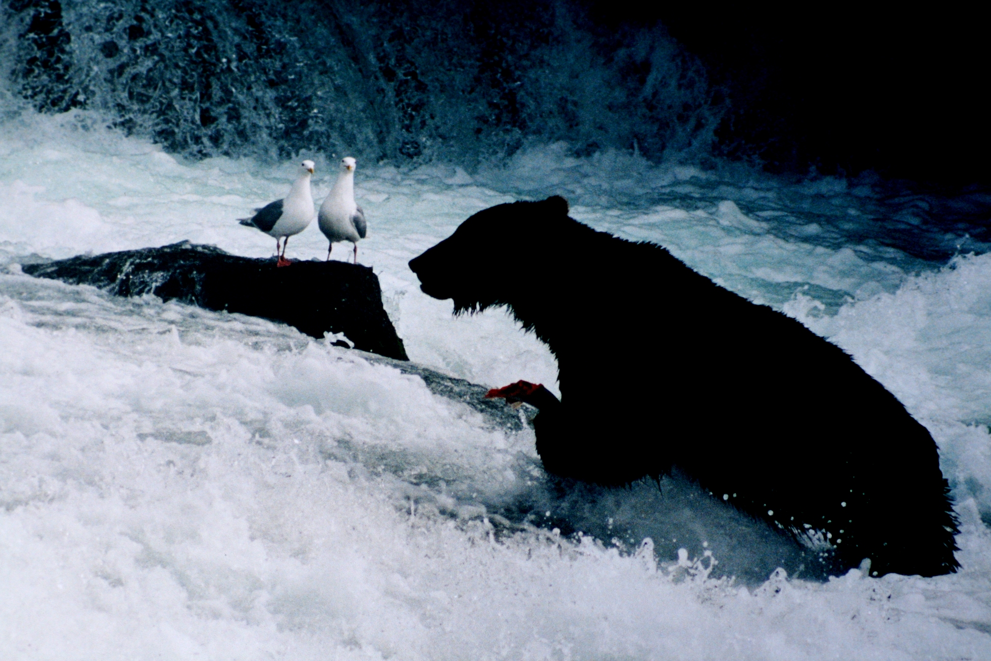 Brown bear at Brooks Falls Katmai National ParkPhotograped by Brocken Inaglory in July of 1998